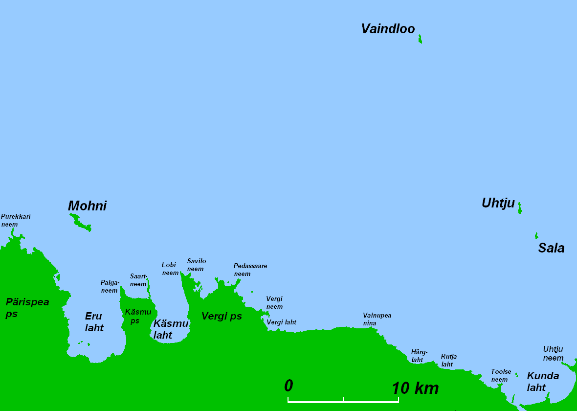 Location of Estonian isles: Mohni, Vaindloo, Uhtju and Sala.